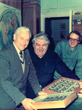 M.I.Falkovitsh, Yu.P.Korshunov and V.V.Dubatolov in Zoological Museum, Biological Institute, Novosibirsk, Russia, October-December 1988